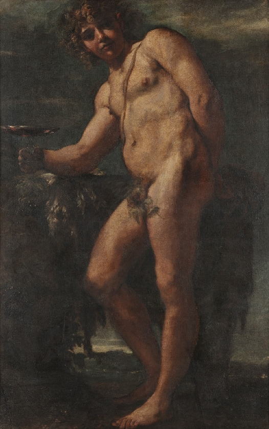 Representation of Roman god Bacchus by A.Carracci. Museum: Capodimonte (Naples)